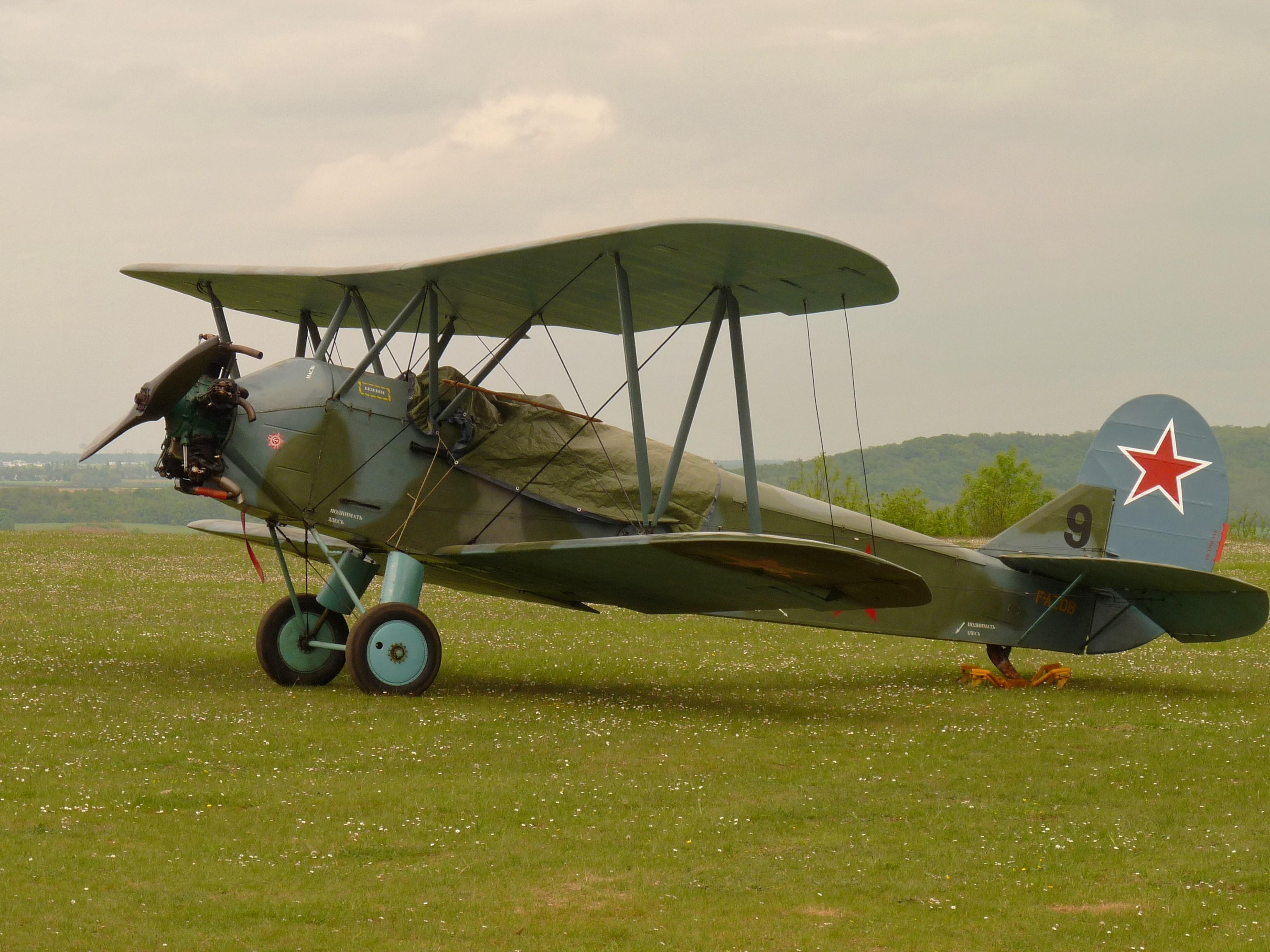 Polikarpov Po-2 of Amicale Jean-Baptiste Salis collection